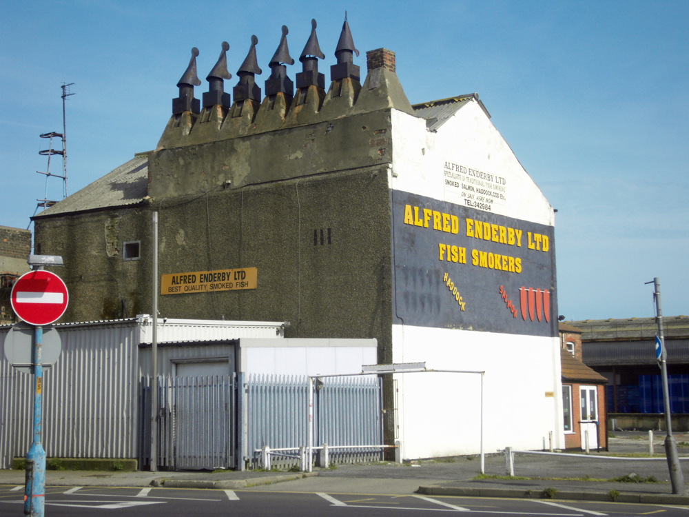 Alfred Enderby, Fish Smokers, Cross Street, Grimsby